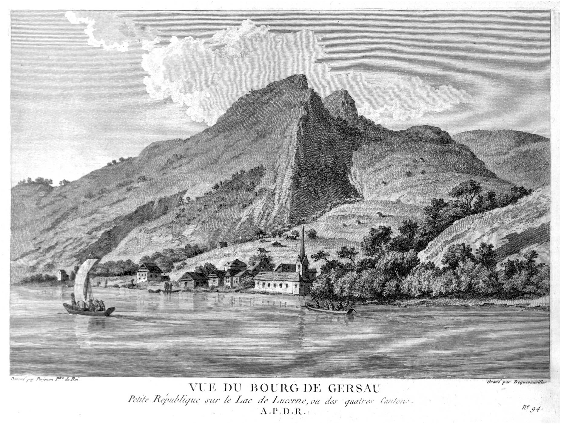 «Vue du Bourg de Gersau, petite République sur le Lac de Lucerne, ou des quatres Cantons» View of the Republic of Gersau on Lake Lucerne. Engraving by François Dequevauviller, based on a drawing by Nicolas Pérignon.